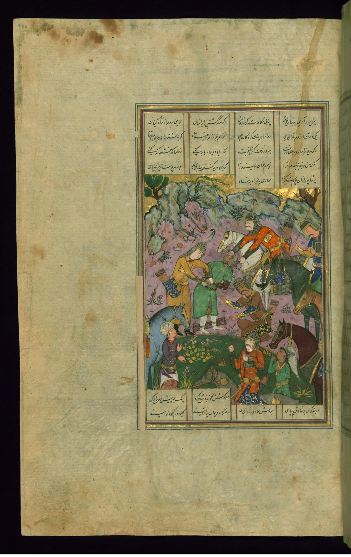 On this folio from Walters manuscript W.602, Shapur cuts off the nose and ears of the king of Rum.